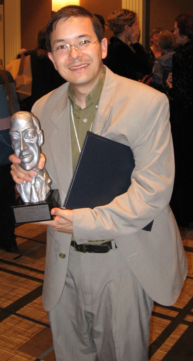 Shaun Tan, Australian illustrator and author of award winning children's books such as The Red Tree and The Lost Thing. Shown here holding his recently-won World Fantasy Award.